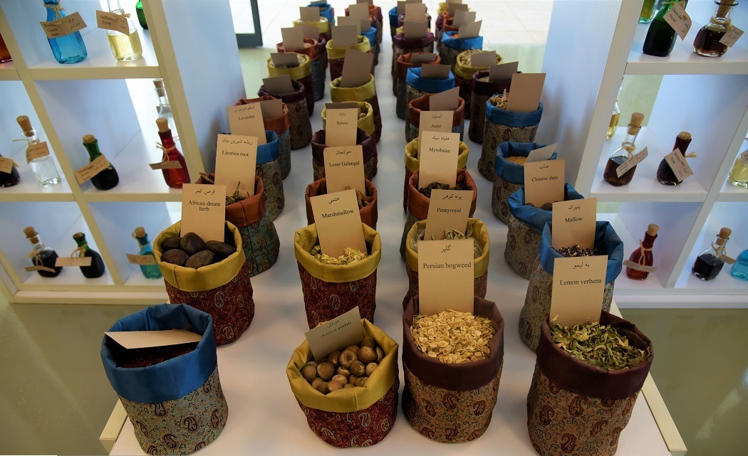 Opening of the Barakat Industrial Pharmaceutical Town